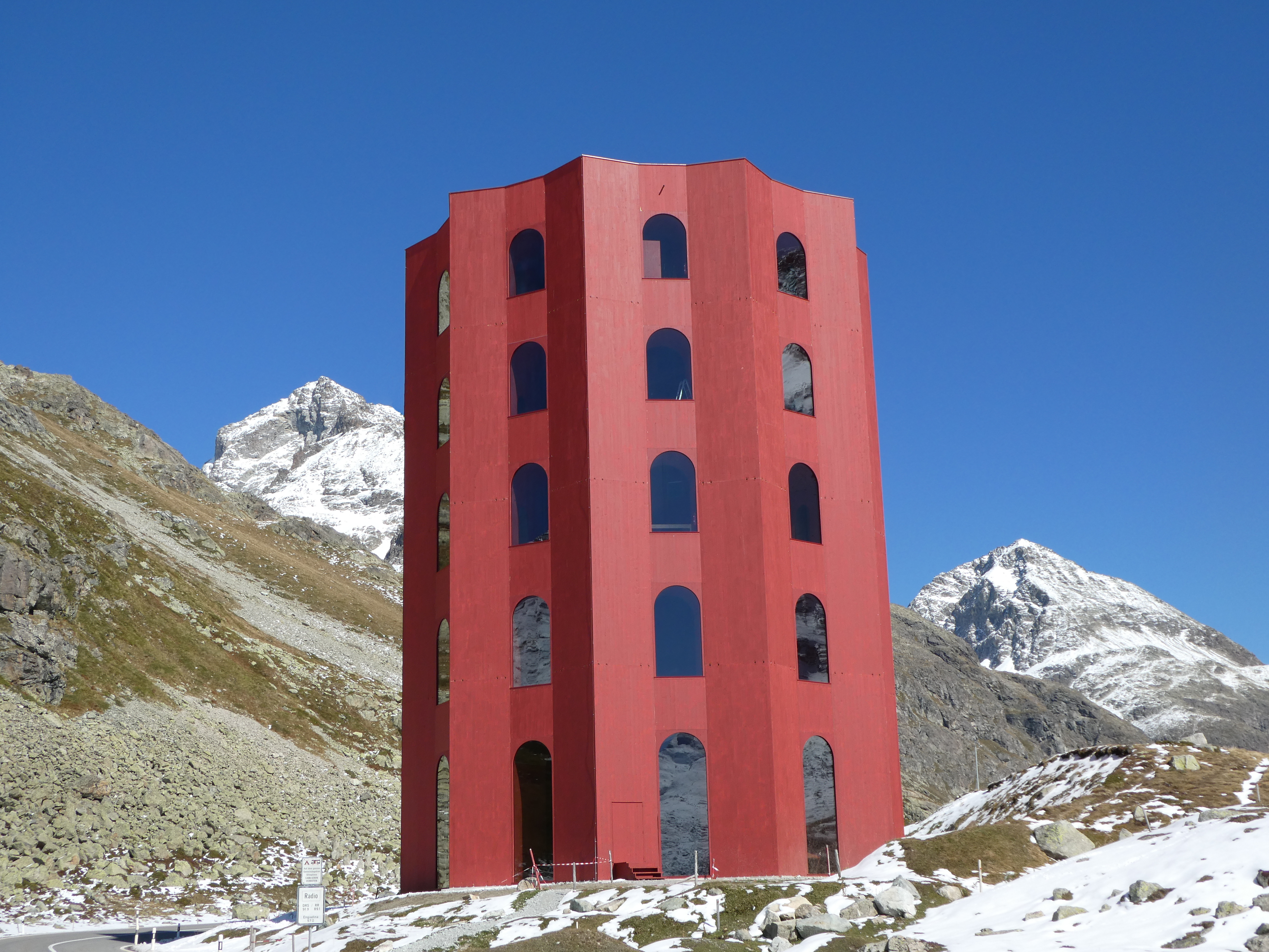 Juliertheatre, House of theater of Origen Festival Cultural on Julierpass (Surses/Silvaplana, Grison, Switzerland)